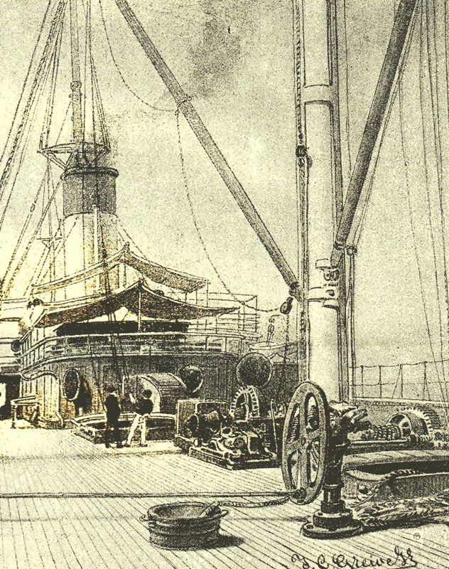 Bovendeks